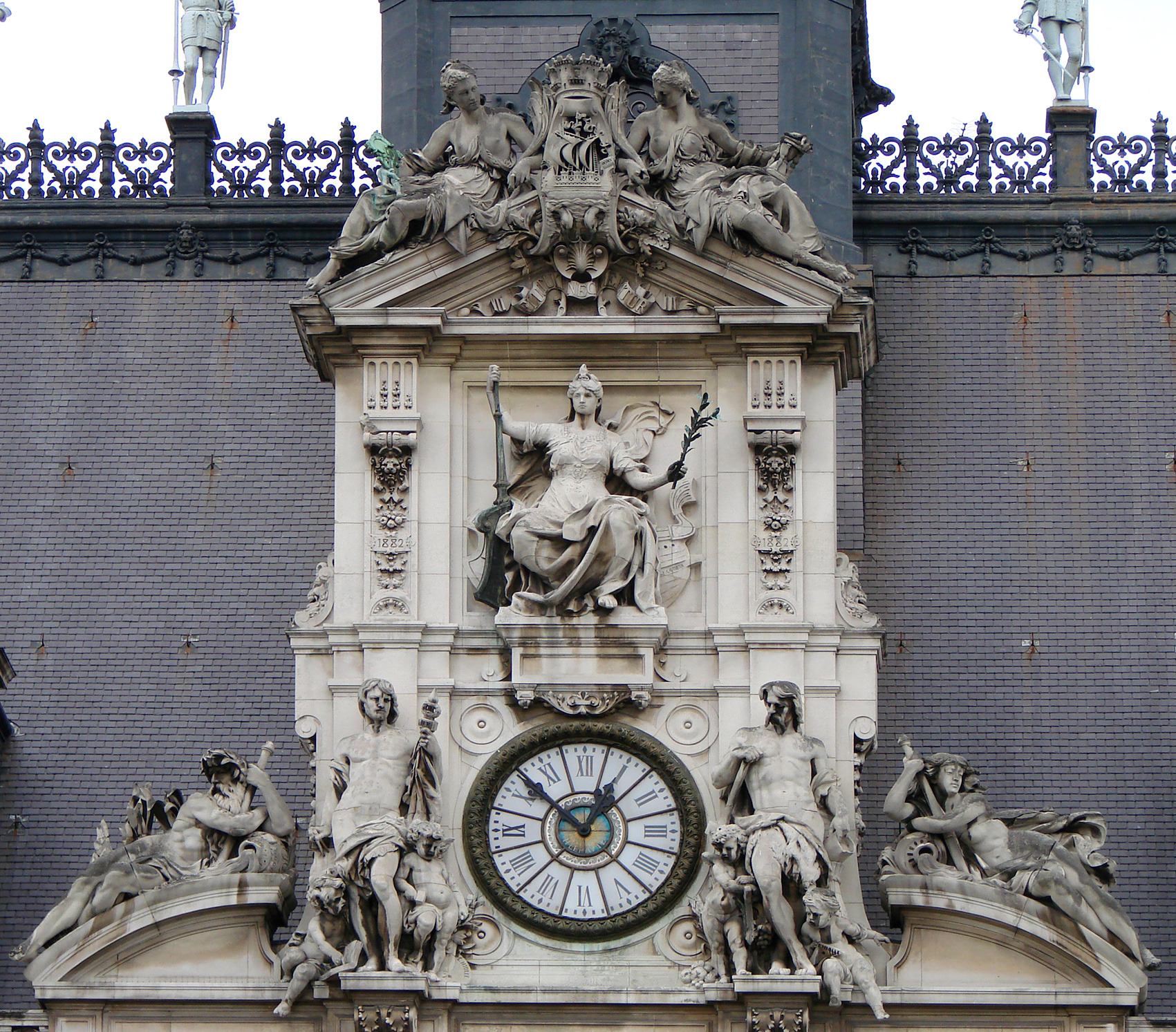 The clock of the Town Hall of Paris.